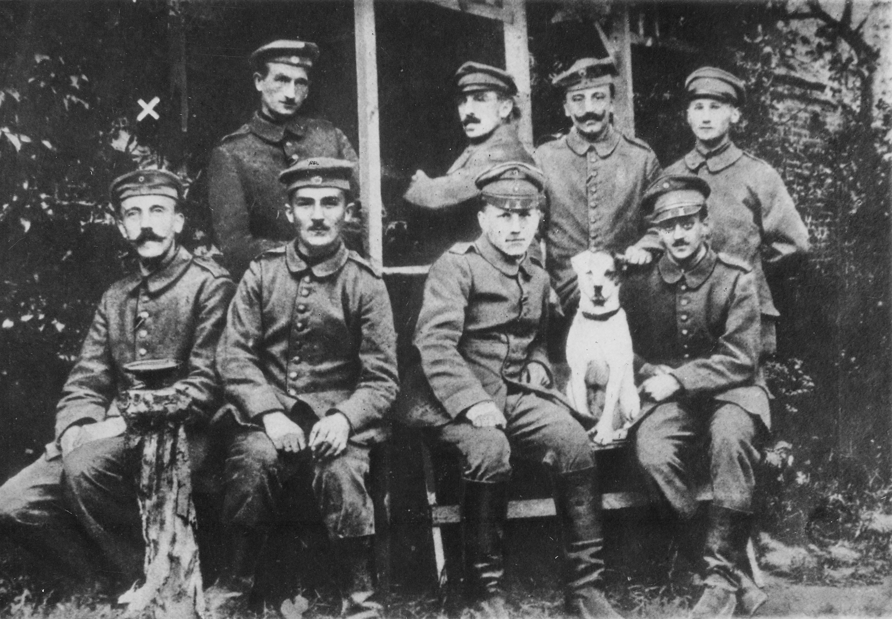 German soldiers. Adolf Hitler at left. Cebuano: Pundok sa mga sundalong Aleman. Si Adolf Hitler anaa sa wala, (adunay "X" sa ibabaw sa iyang ulo).